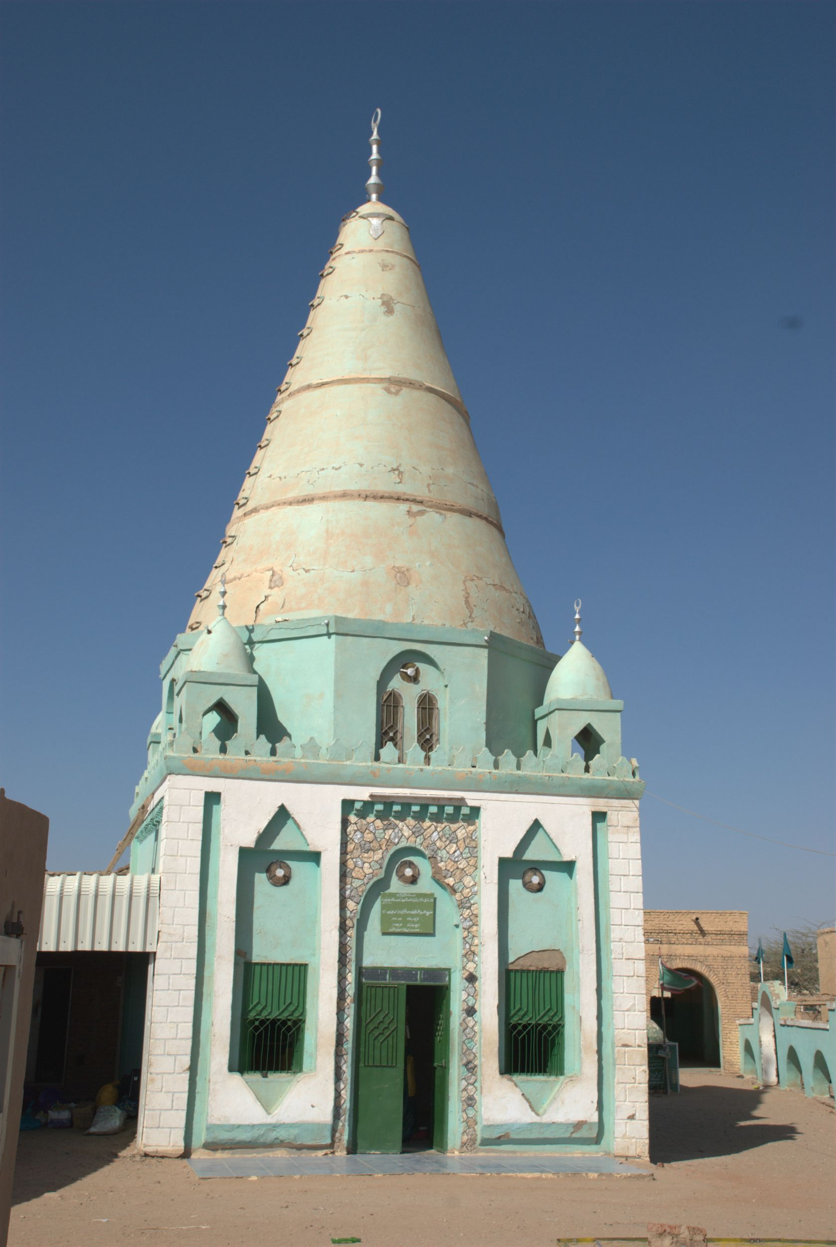 Tomb of Muhammad al-Majdhub, Ed Damer, Sudan.